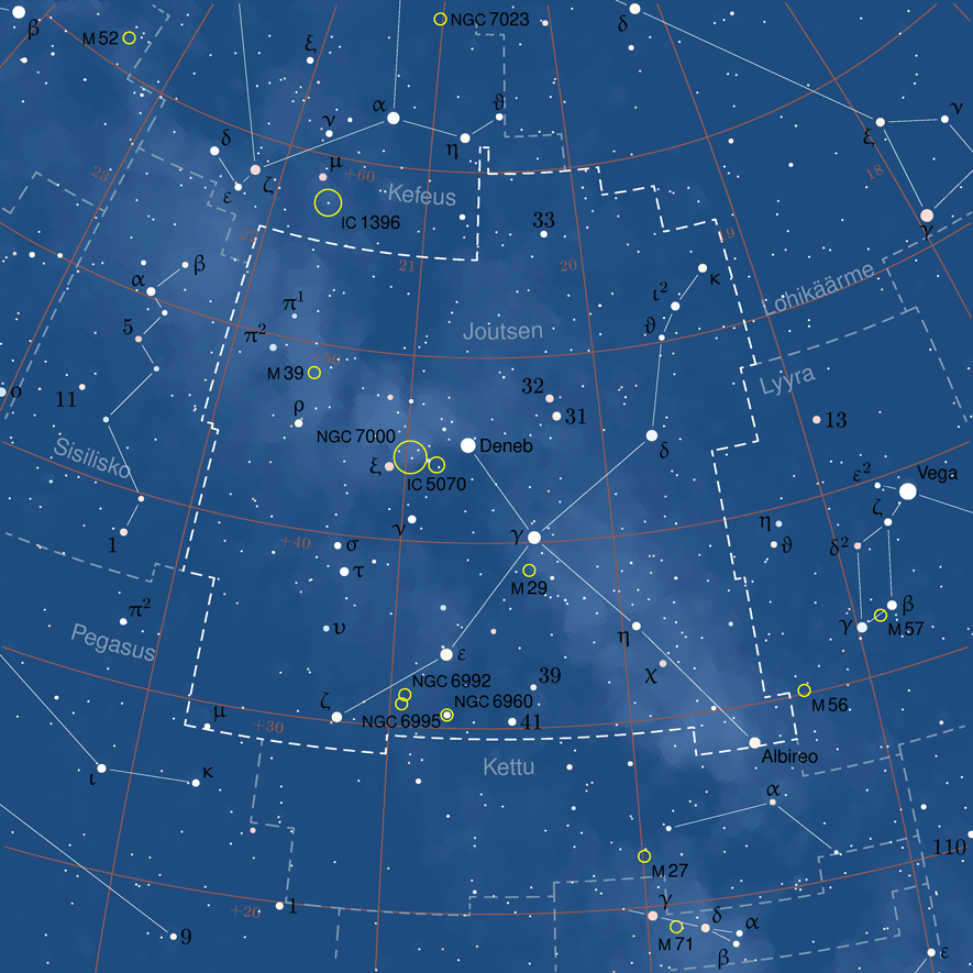 Map of Cygnus in Finnish. Made with PP3